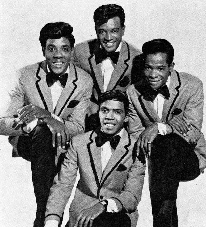 Photo of the music group The Intruders.